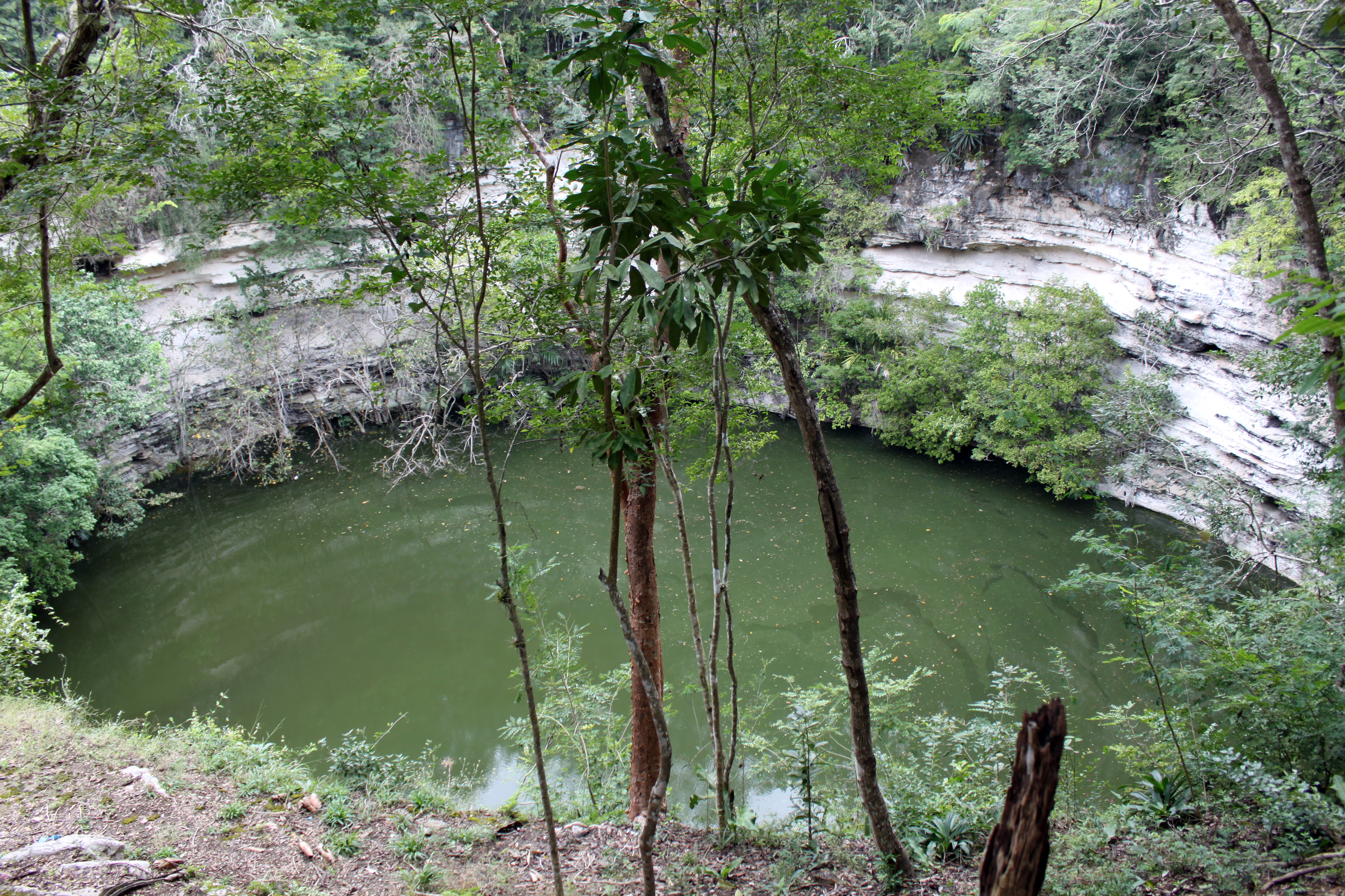 Chichen Itza, Sacred Cenote